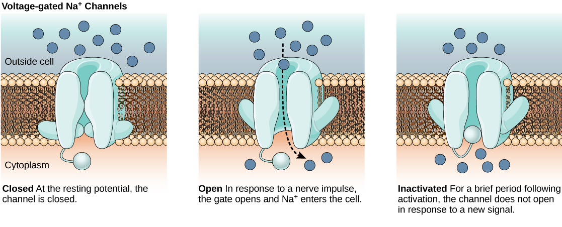 Name: Biology ID: Language: English Summary: Biology is designed for multi-semester biology courses for science majors. It is grounded on an evolutionary basis and includes exciting features that highlight careers in the biological sciences and everyday applications of the concepts at hand. To meet the needs of today’s instructors and students, some content has been strategically condensed while maintaining the overall scope and coverage of traditional texts for this course. Instructors can customize the book, adapting it to the approach that works best in their classroom. Biology also includes an innovative art program that incorporates critical thinking and clicker questions to help students understand—and apply—key concepts. Subjects: Science and Technology Keywords: cells,DNA,gene,expressio,nphylogeny,conservation,biodiversity,biology,chemistry,evolution,proteins,bacteria,fungi,cell,membranes,inheritance,physiology,ecology,genetics,biotechnology,biosphere,photosynthesis,biological,molecules,cell structure,metabolismc,ellular respiration,genes,cell communication,cell reproduction,meiosis,sexual reproduction,genomics,study of life,cell function,animal diversity,animal reproduction,plant nutrition,soilseedless plantsplant physiologyplant reproductionanimal bodycirculatory systemdigestive systemendocrine systemnervous systemrespiratory systemorigin of speciesecosystemsarchaeasensory systemosmotic regulationimmune systemvertebratesviruspopulation ecologymusculoskeletal systembehavioral biologyanimal biologyanimal physiologybiology for majorscollege biologyeukaryotesinvertebratesmacromoleculesplant biologypopulation evolutionprokaryotesprotistsseed plants Print Style: CCAP Biology License: Creative Commons Attribution License (by 4.0) Authors: OpenStax Copyright Holders: Rice University Publishers: OpenStax OpenStax Biology Latest Version: 10.53 First Publication Date: Aug 22, 2012 Latest Revision: May 27, 2016 Last Edited By: OpenStax Biology